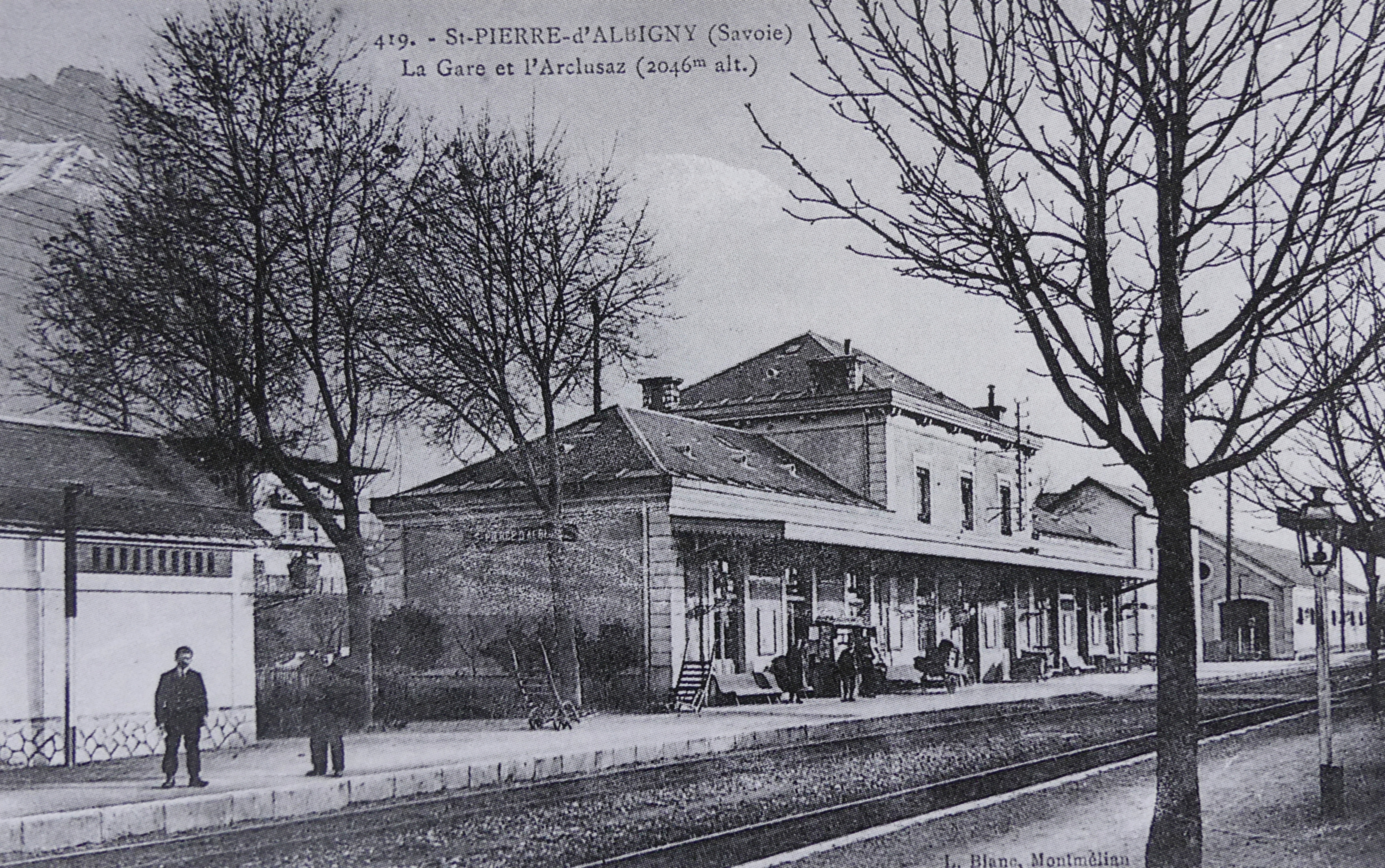 Sight of Saint-Pierre-d'Albigny railway station at the beginning of the 20th century (after 1912), in Savoie, France.